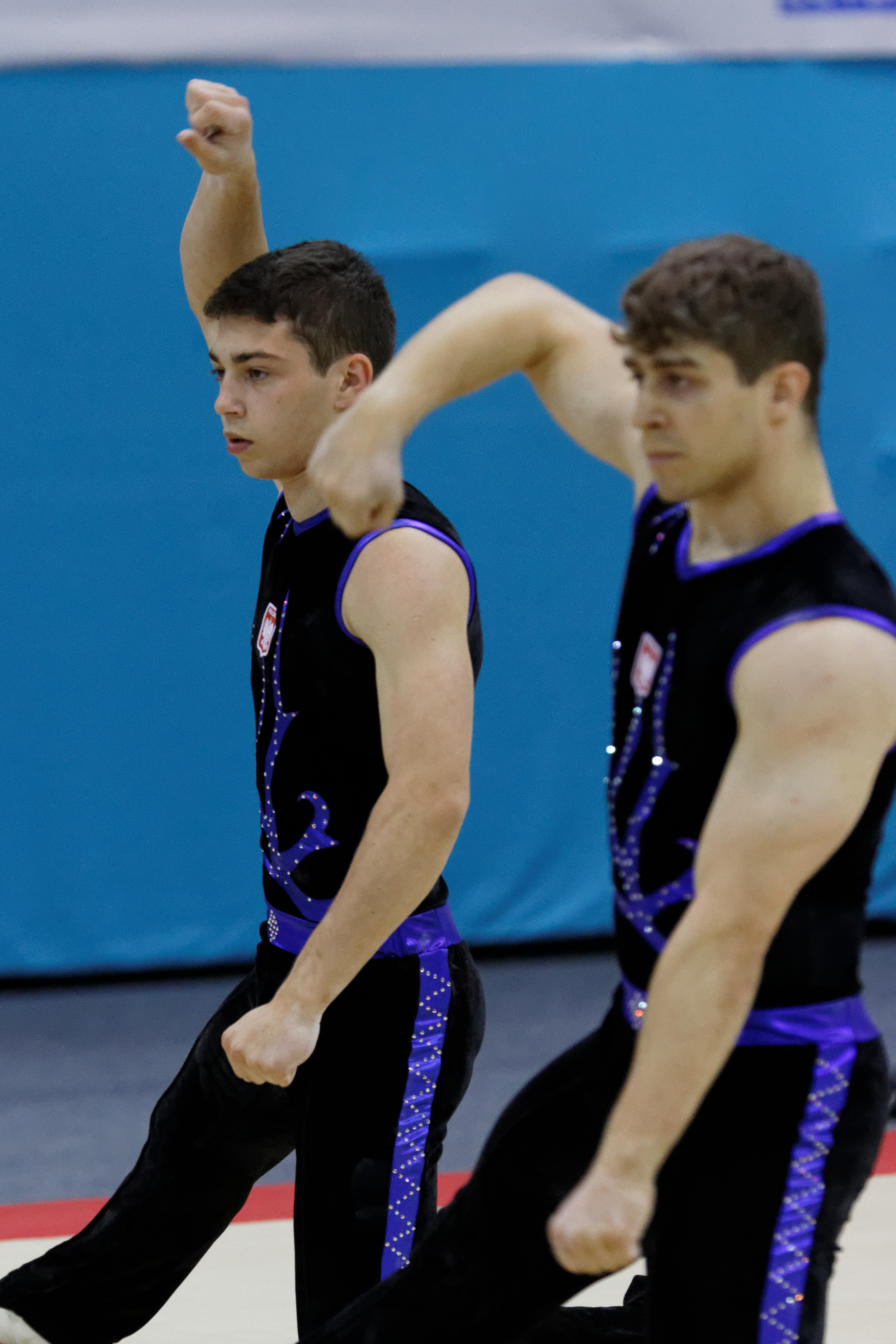 2014 Acrobatic Gymnastics World Championships, 10th-12 July, Levallois-Perret, France. Qualifications: men's pair. Poland.